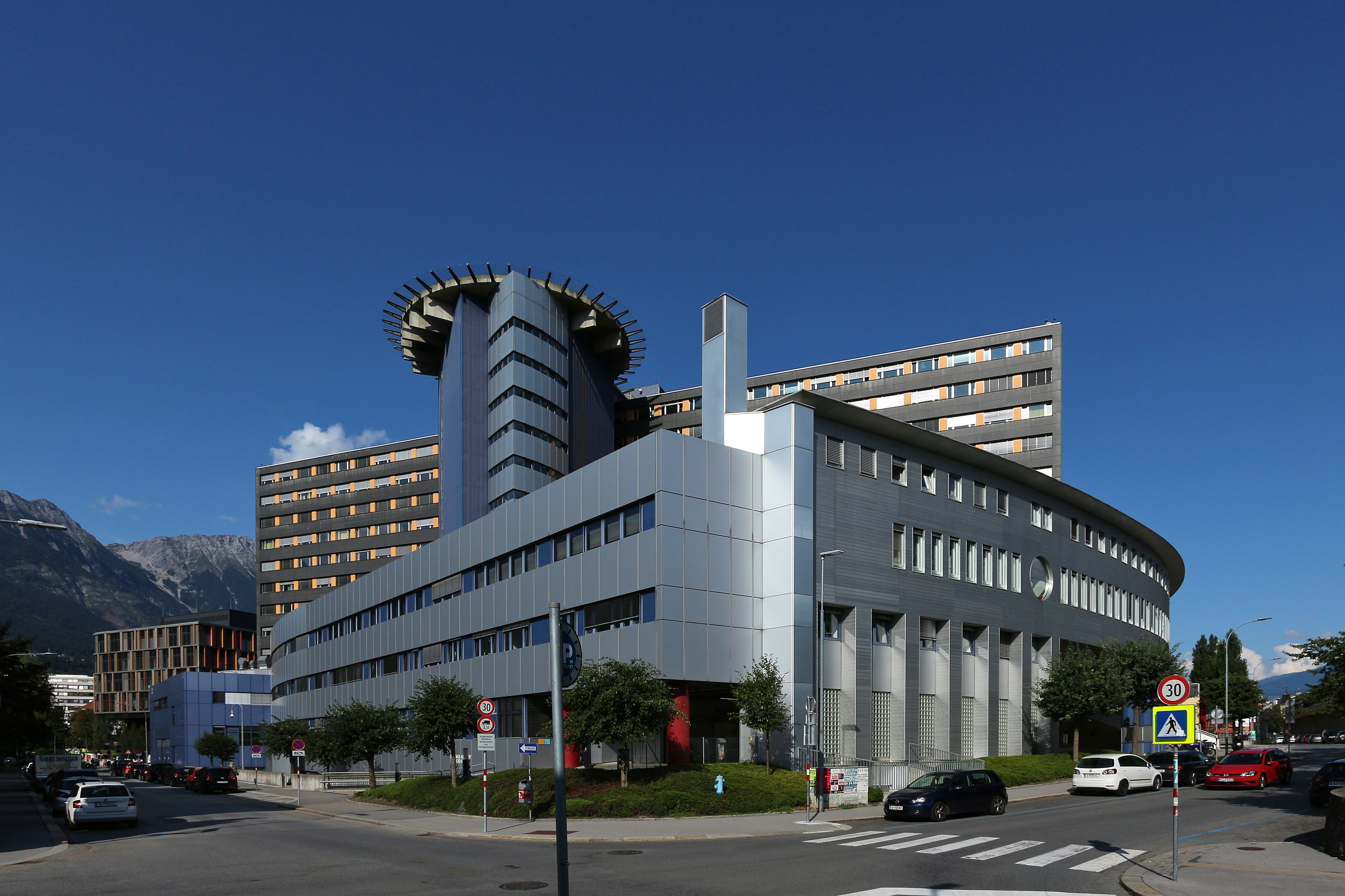 Universitätsklinik Innsbruck